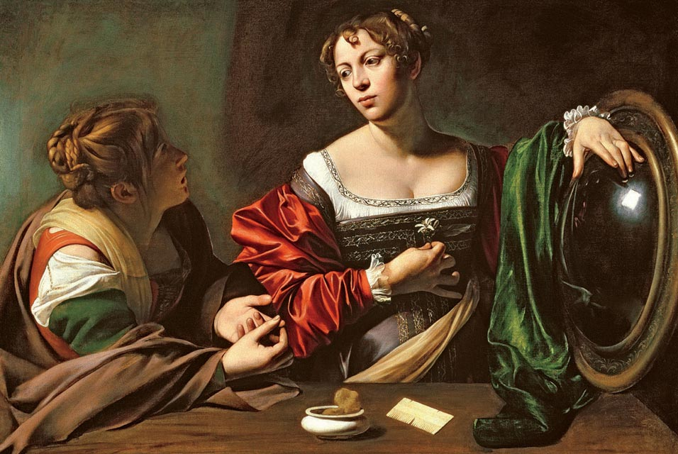 Martha and Mary Magdalene